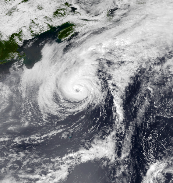 Hurricane Debby on September 17, 1982